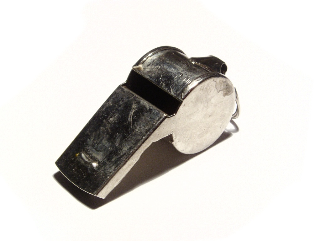 By Richard Wheeler (Zephyris) 2007.